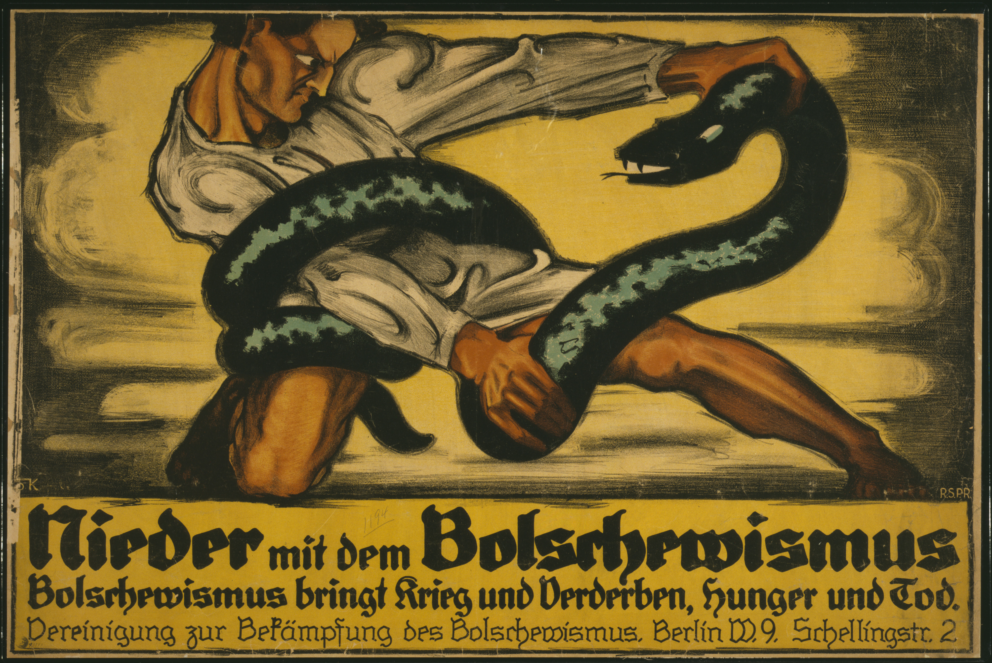 Title: Nieder mit dem Bolschewismus. Bolschewismus bringt Krieg und Verderben, Hunger und Tod Abstract: Poster showing man struggling with a snake. Text: Down with Bolshevism. Bolshevism brings war and destruction, hunger and death. Physical description: 1 print (poster) : lithograph, color ; 67 x 101 cm. Notes: O.K. : R.S.P.R.; Title from item.